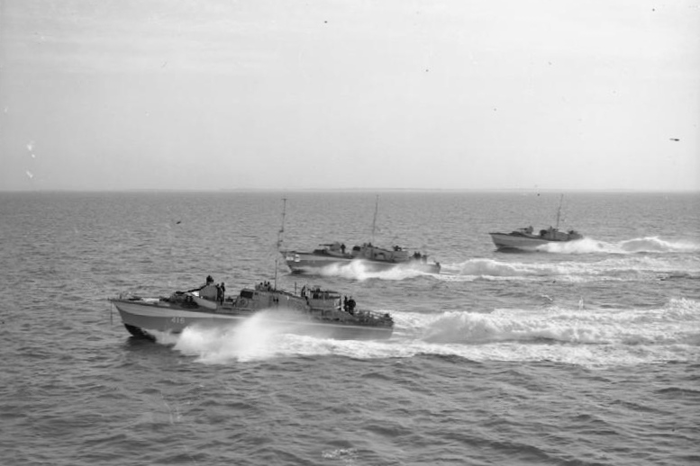 IWM caption : THE ROYAL NAVY DURING THE SECOND WORLD WAR: OPERATION OVERLORD (THE NORMANDY LANDINGS), JUNE 1944. Motor torpedo boats (MTB 416, MTB 413 and MTB 414) returning after dawn from an anti E-Boat patrol off Cherbourg.(this official description is probably wrong. The shown pennant number is 415 and the boats carry no torpedoes. So its likely that this are MGB!)